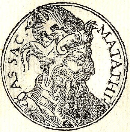 Mattathias was a Jewish priest whose role in the Jewish revolt against the Syrian Greeks is related in the Books of the Maccabees.